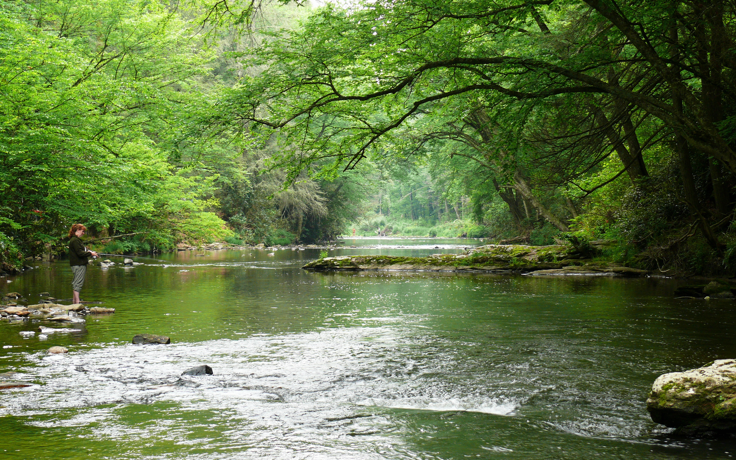 The Linville River is a popular recreational stream that flows from the southern face of Grandfather Mountain in the Blue Ridge Mountains. The river flows over Linville Falls and through the Linville Gorge before joining Lake James. Photo taken with a Panasonic Lumix DMC-FZ50 in Avery County, NC, USA.